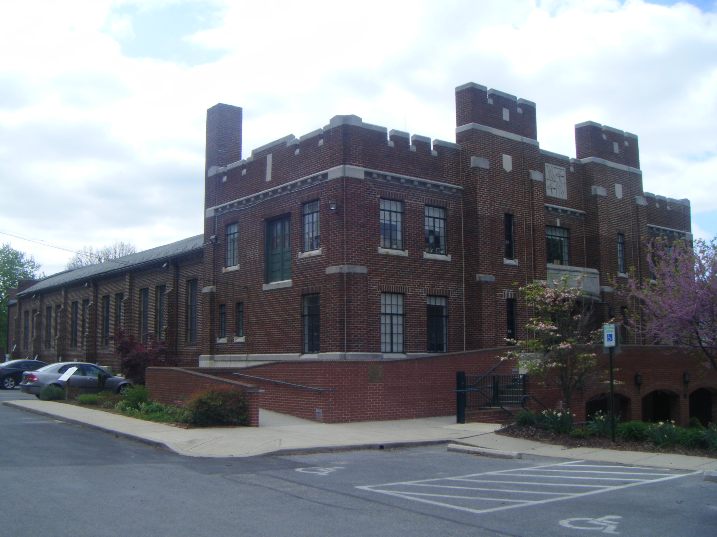 The Kensington Town Hall in Kensington, Maryland